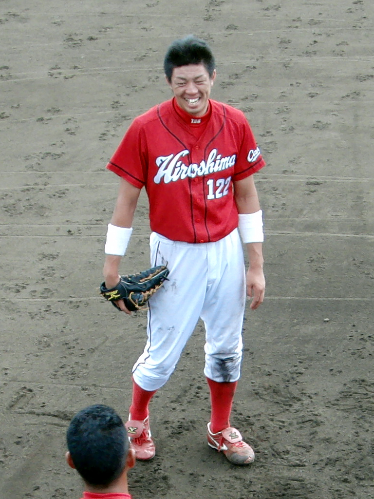 Ken Nakamura, outfielder of the Hiroshima Toyo Carp, at Gannosu Baseball Ground.